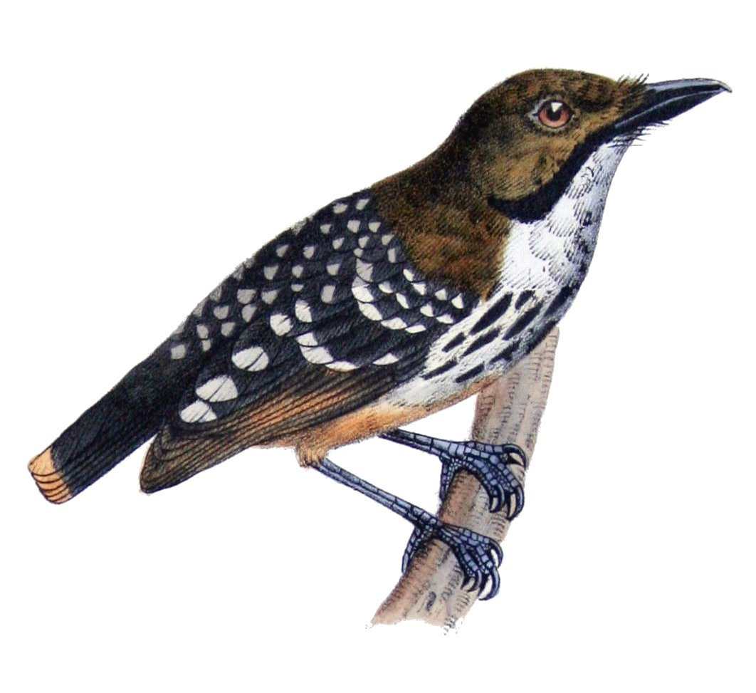 Rhopothera guttata O. Des M. et de Cast. = Hylophylax punctulatus (Des Murs, 1856)